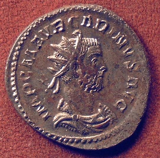 Antoninianus of Carinus as Augustus, son of Carus and brother of Numerianus Carinus